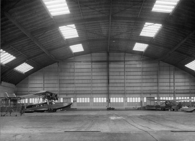 Sikorsky S-38B possibly NC11V/SE-AKN (1934-1936). Also a WACO ZQC-6